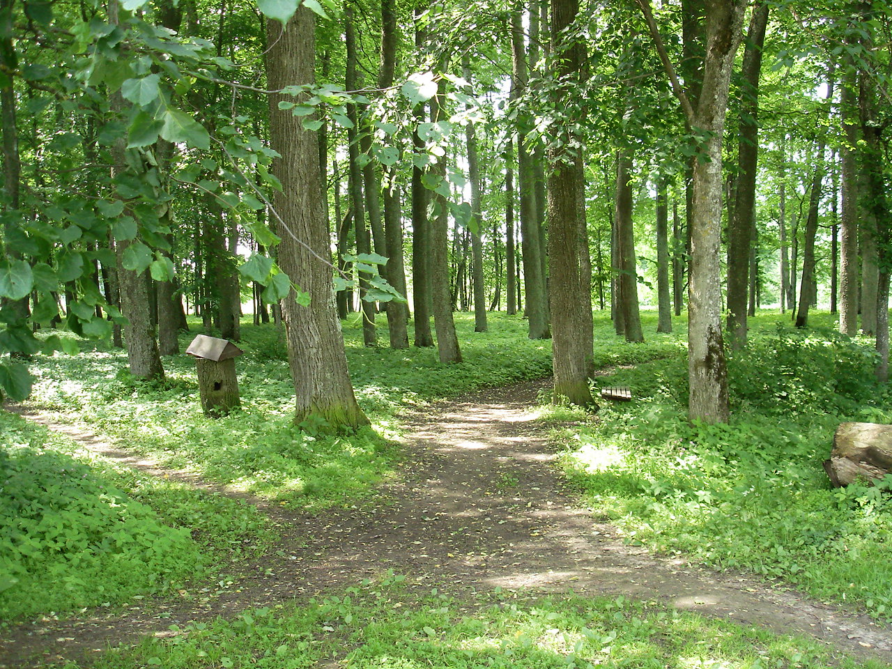 park